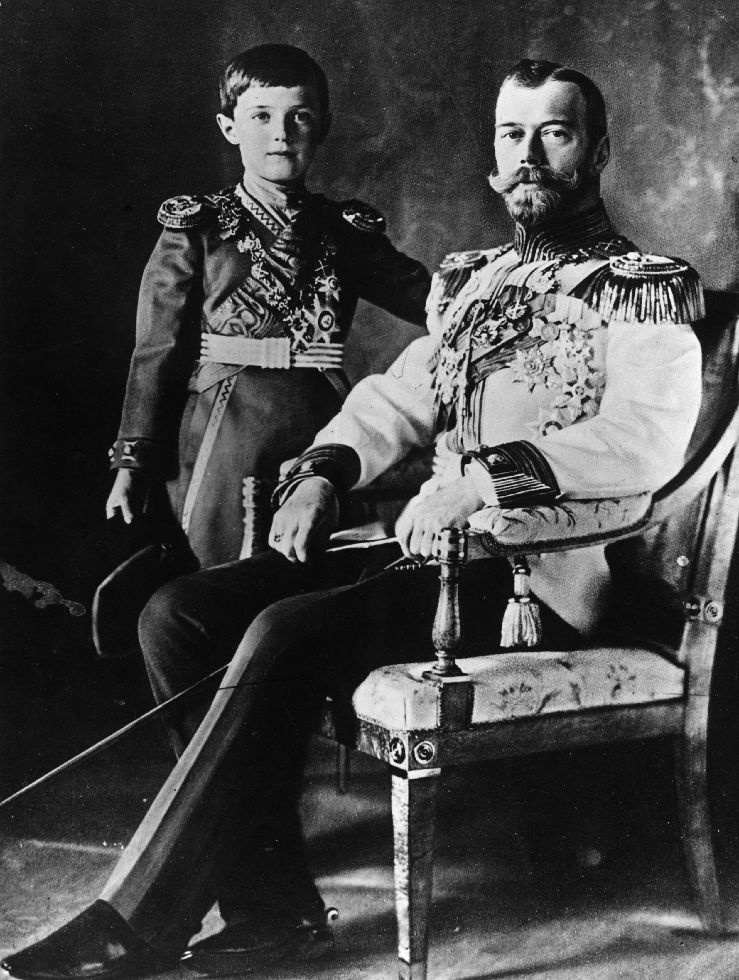 Tsar Nicholas II and His Son Tsarevich Alexei Both are wearing chains of the Order of Saint Andrew, the highest award of the Russian Empire, members of the Imperial family were getting it at birth. Nicholas II is in the white parade uniform of a Colonel of the Horse Guard Regiment of His Majesty. The Tsar was the Honorary Commander of that regiment. Tsarevich Alexei is in the uniform of the Rifle Regiment of the Imperial Family, all male members of the Romanov family were enlisted in the regiment at birth.